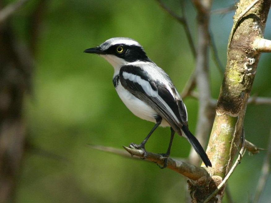 A male Pale batis at Panda in Inhambane province, Mozambique